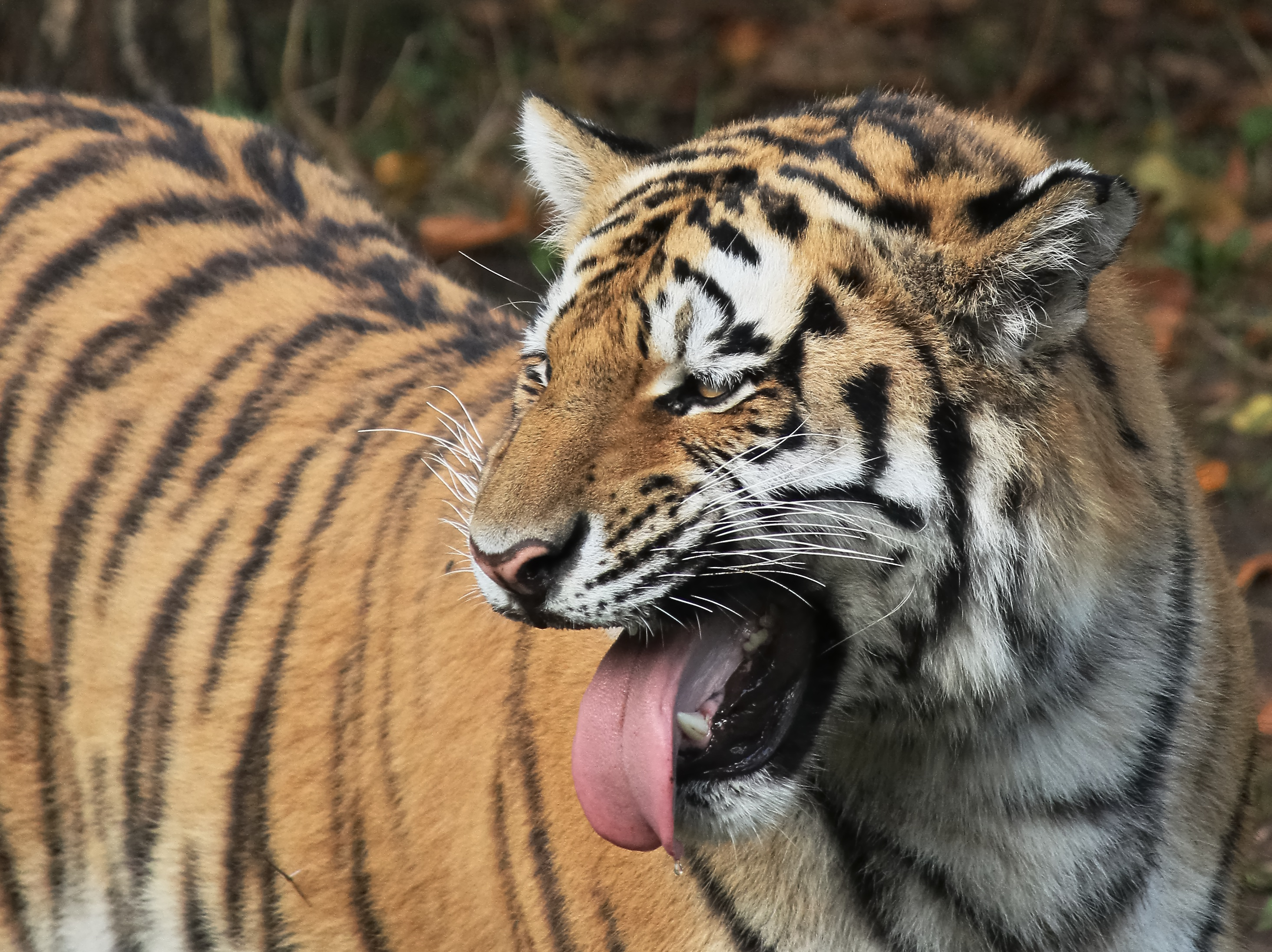 Flehmen response, Panthera tigris altaica